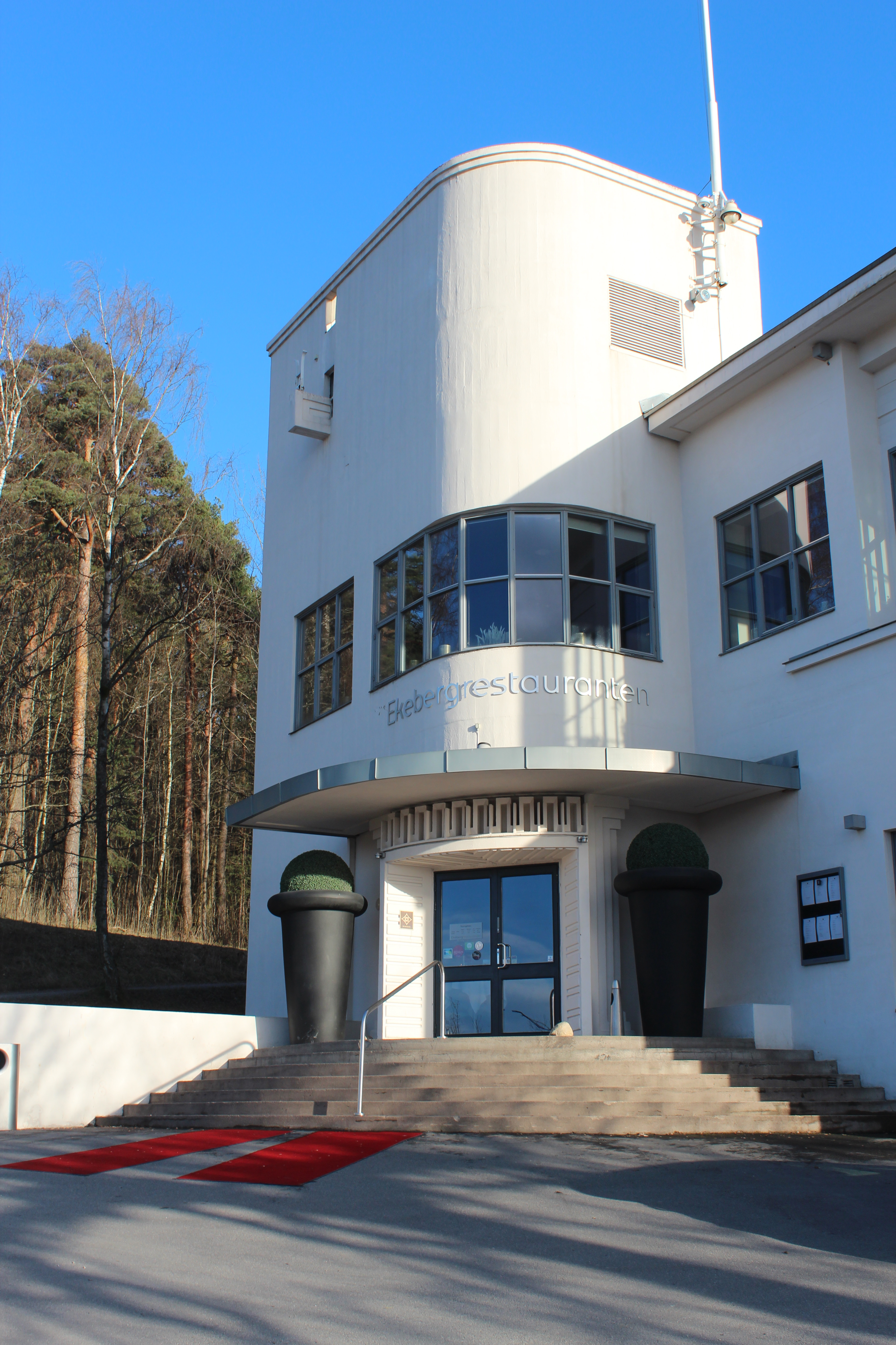 Ekebergrestauranten, Ekeberg, Oslo.